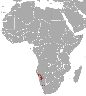 Mountain Zebra (Equus zebra) range